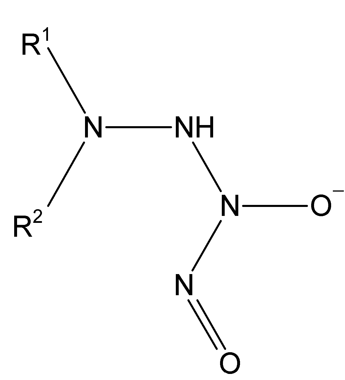 Comments High-resolution black/white .PNG made with ChemSketch and Photoshop — see WikiProject Chemistry - structure drawing for detailed instructions. Please drop me a note if you need the source file. Category:Chemical structures (Original text: Chemical structure of NONOate)